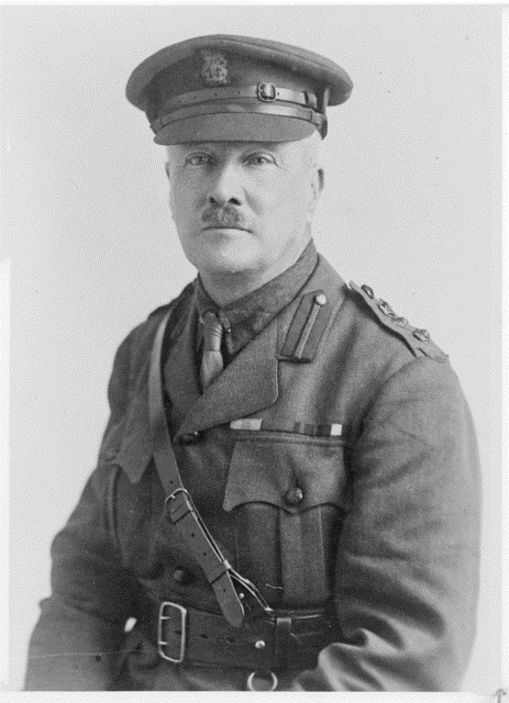 Portrait of Lieutenant Colonel V A H Sturdee DSO OBE, Commander Royal Engineers (CRE), 5th Division.